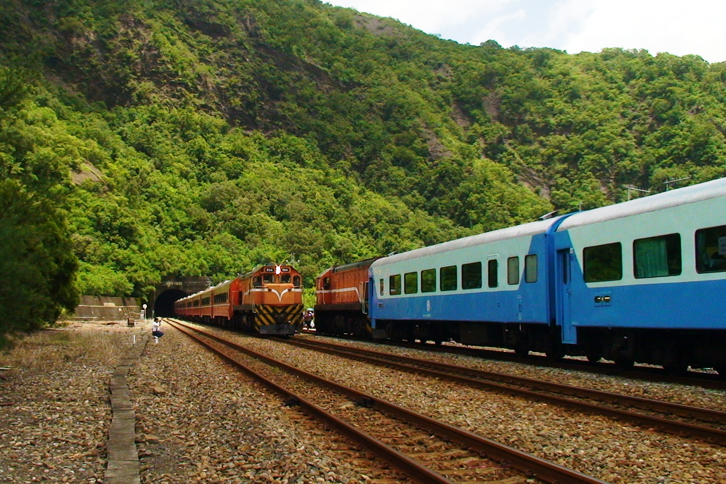 Trains in a passing loop at TRA South-Link Line Fangye Station.